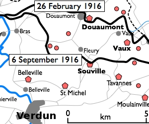 Basic 300-pixel thumbnail map showing location of Fort Doumont in relation to Verdun and the other forts north and northeast of Verdun. The lines of advance of German forces as at 26 February and 6 September 1916 are shown in black. The River Meuse is shown in blue at left.